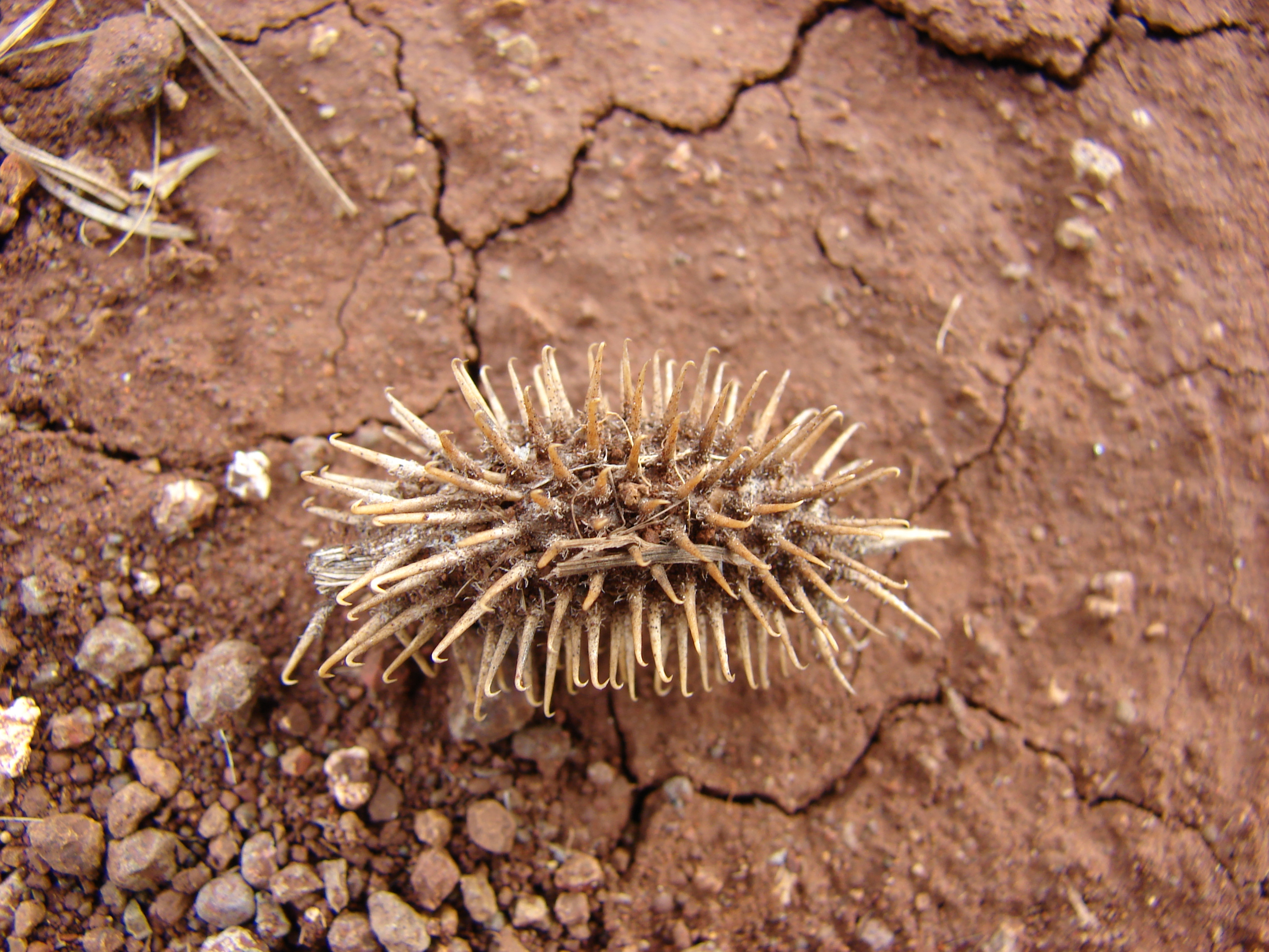 Xanthium strumarium var. canadense (seedpod). Location: Kahoolawe, Lua Kealialalo